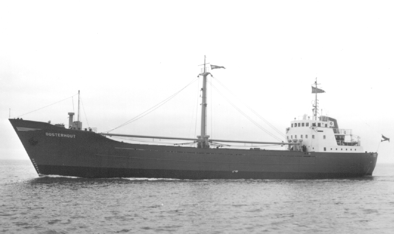 Dutch coastal cargo vessel ("coaster") MV Oosterhout, built in 1964.